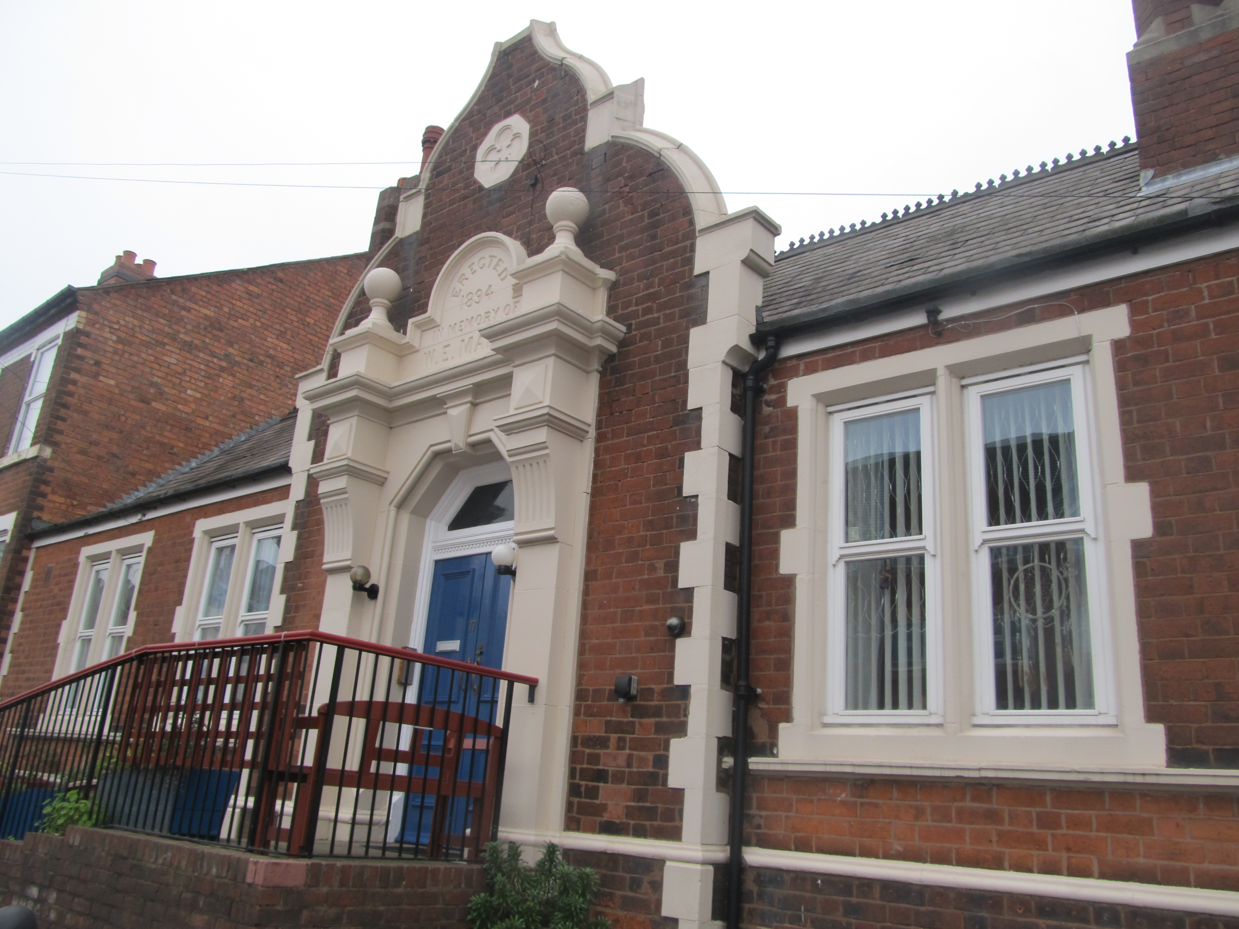 Marsh's Almshouses, Walsall